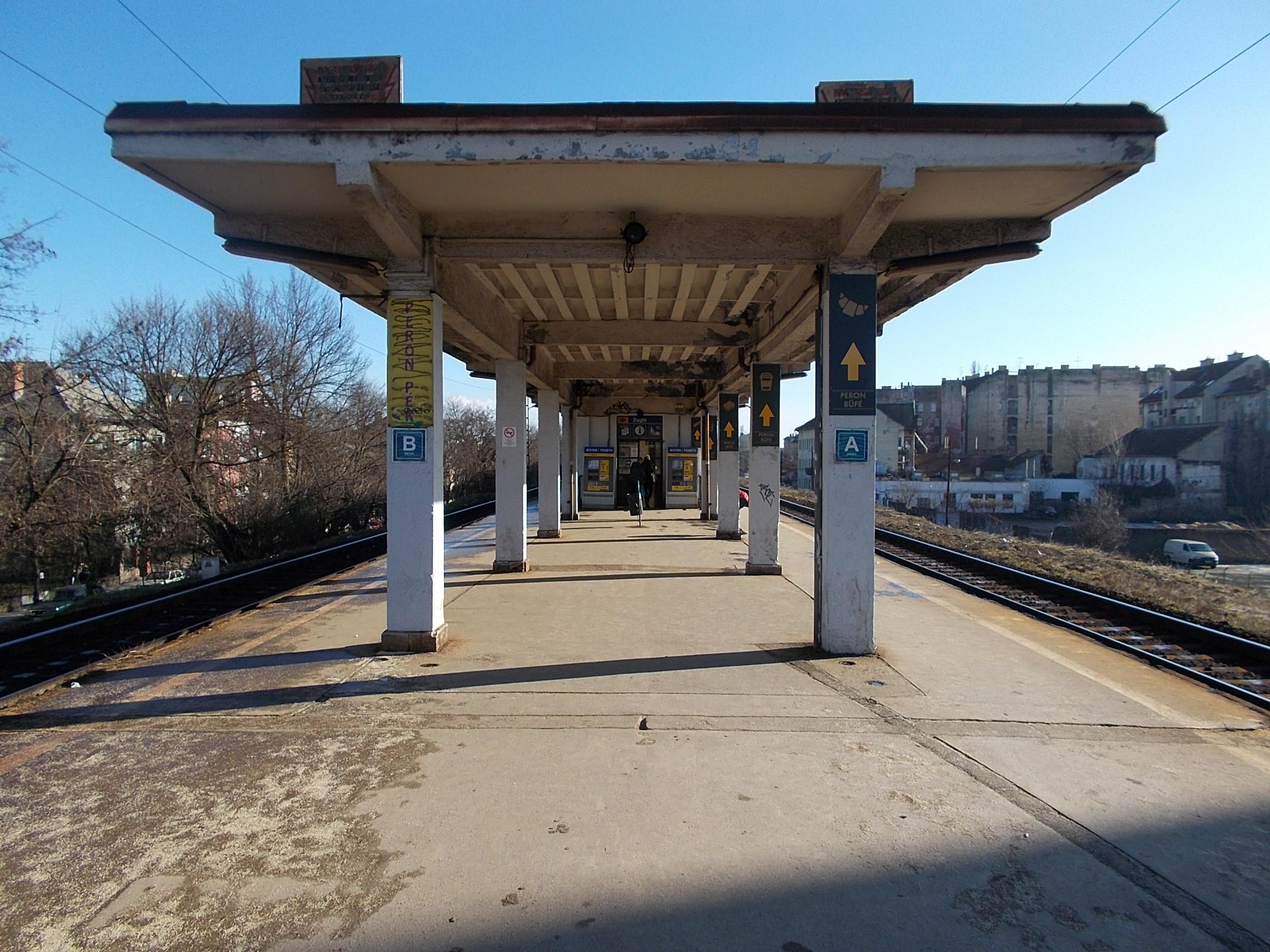 Zugló railway station, B and A tracks, Törökőr neighborhood, Budapest District XIV.